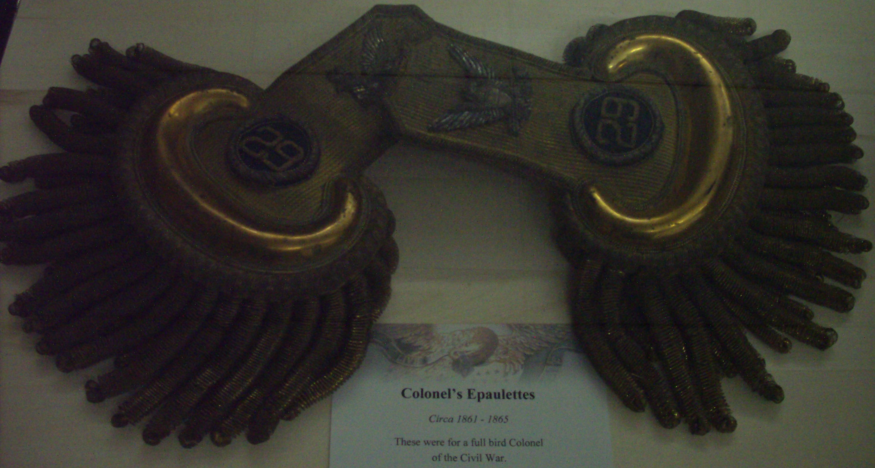 One of a series of my pictures taken of the temporary American Eagle Exhibit at Taylor University of works published before 1923